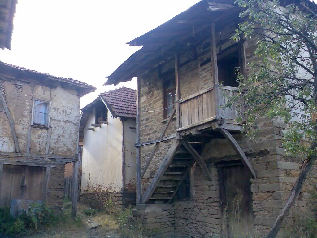 Village of Inche, Poreche region, Republic Macedonia